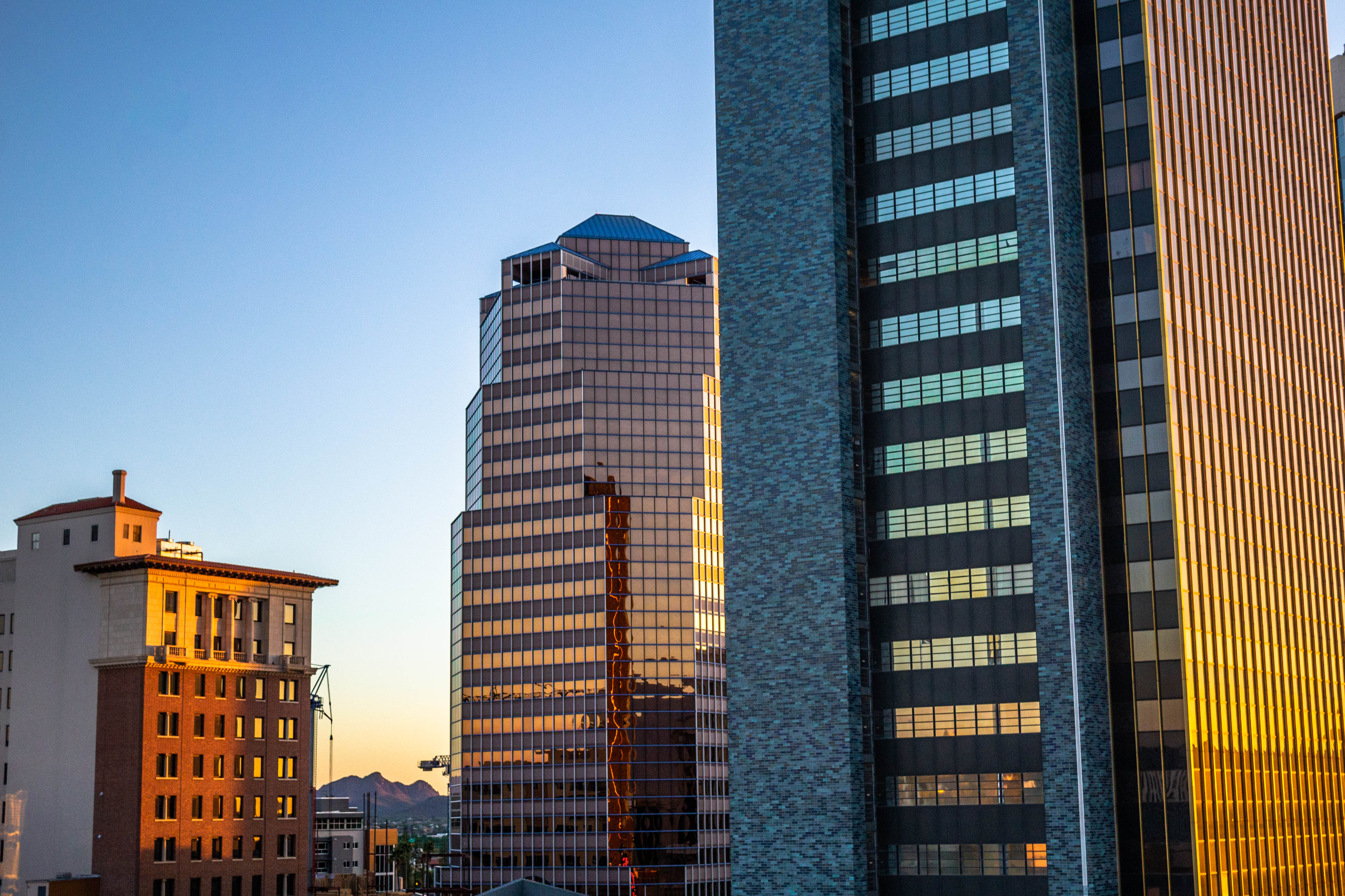 The sun setting on the Tucson skyline in May 2019